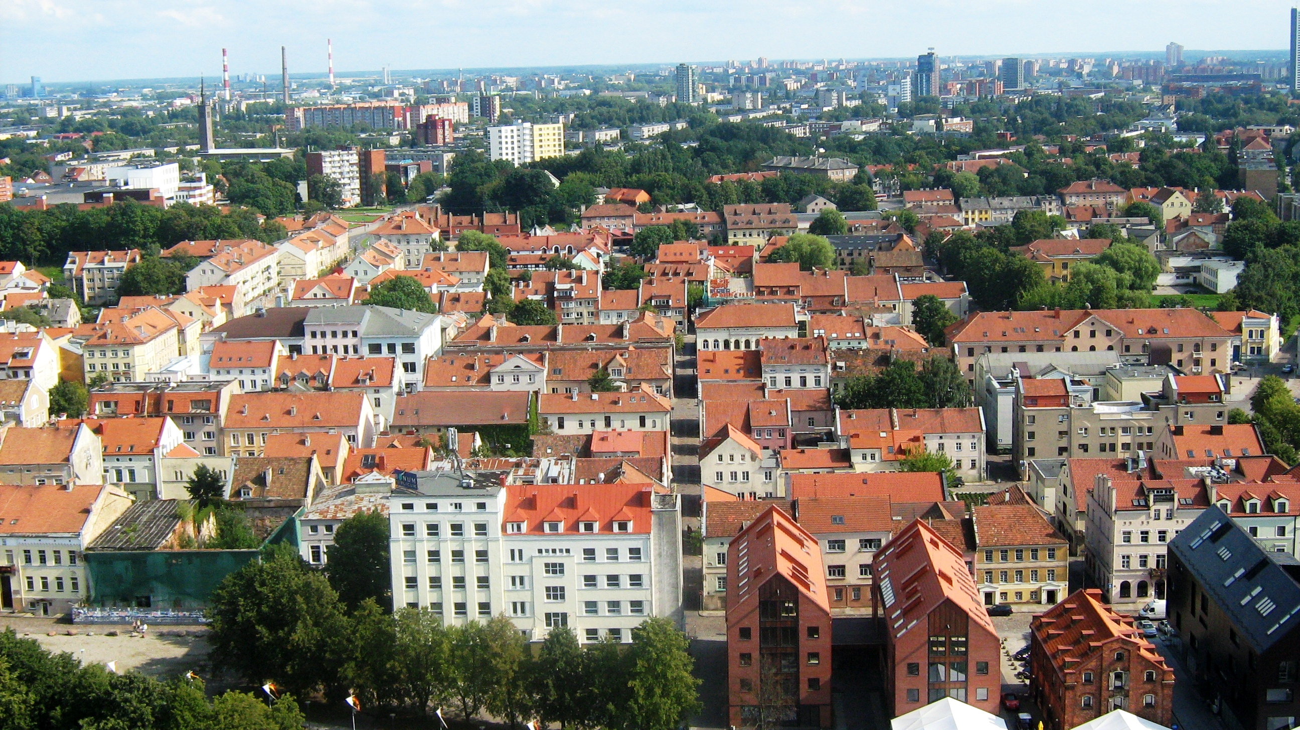 Photo of Klaipėda old town panorama, taken from 21st floor.